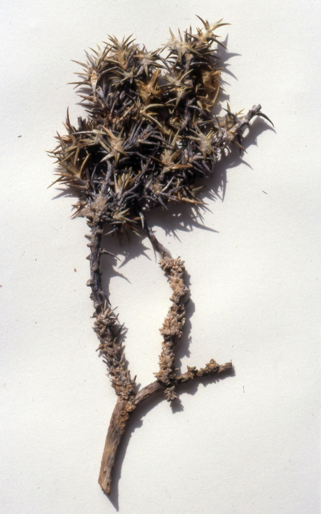 Halothamnus beckettii. Part of the Isotype. Herbarium specimen collected in Somalia by J.J.Beckett No. 702